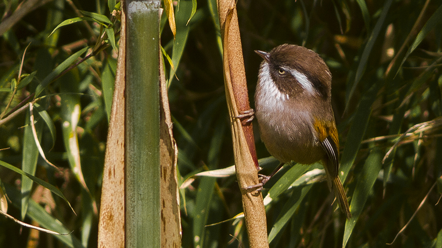 The species White-browed Fulvetta had been photographed during the birding tour of GoingWild at Pangolakha Wildlife Sanctuary in East Sikkim, Sikkim, India on 09.11.2015.